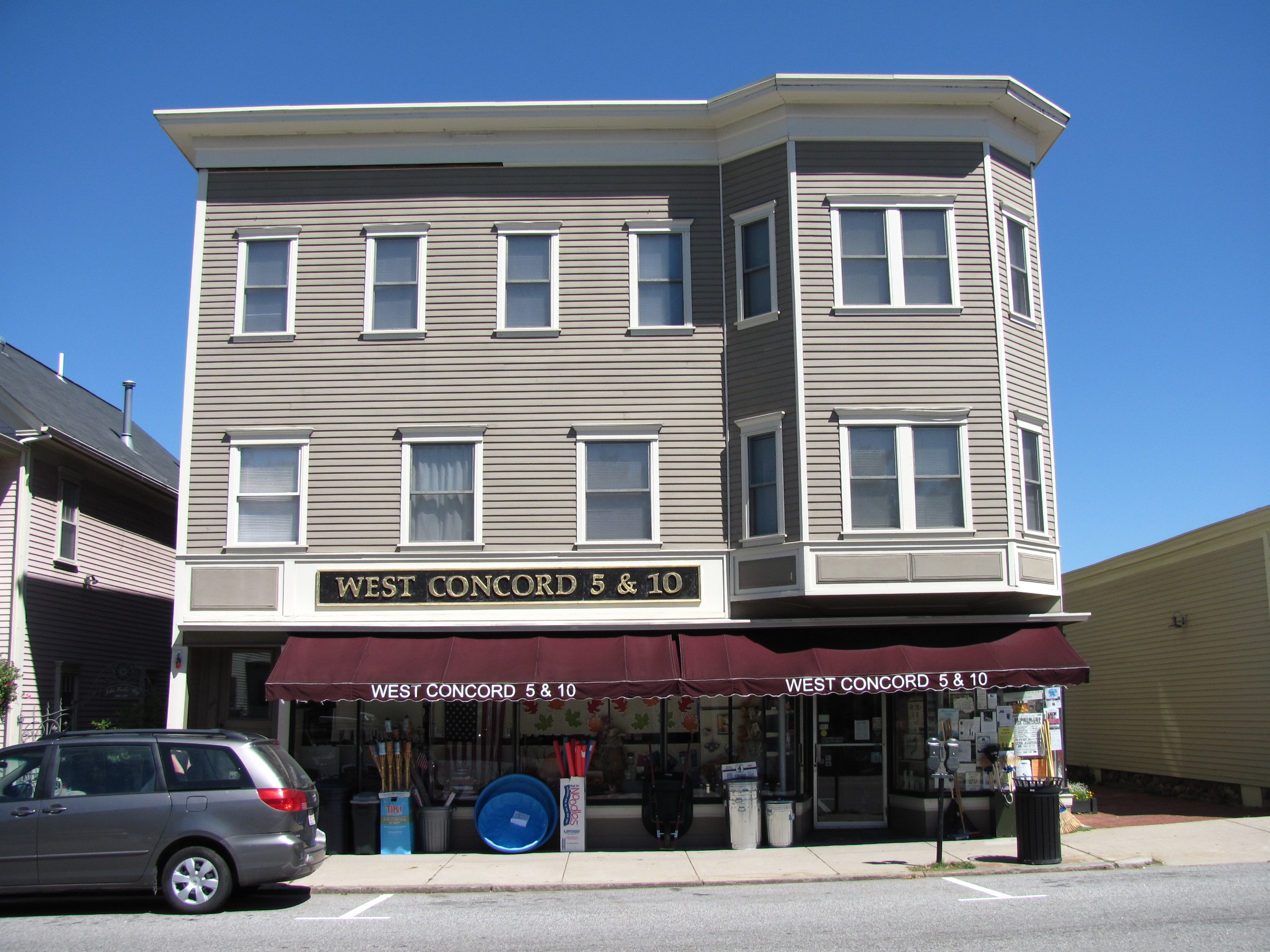 West Concord Five and Ten, West Concord Massachusetts